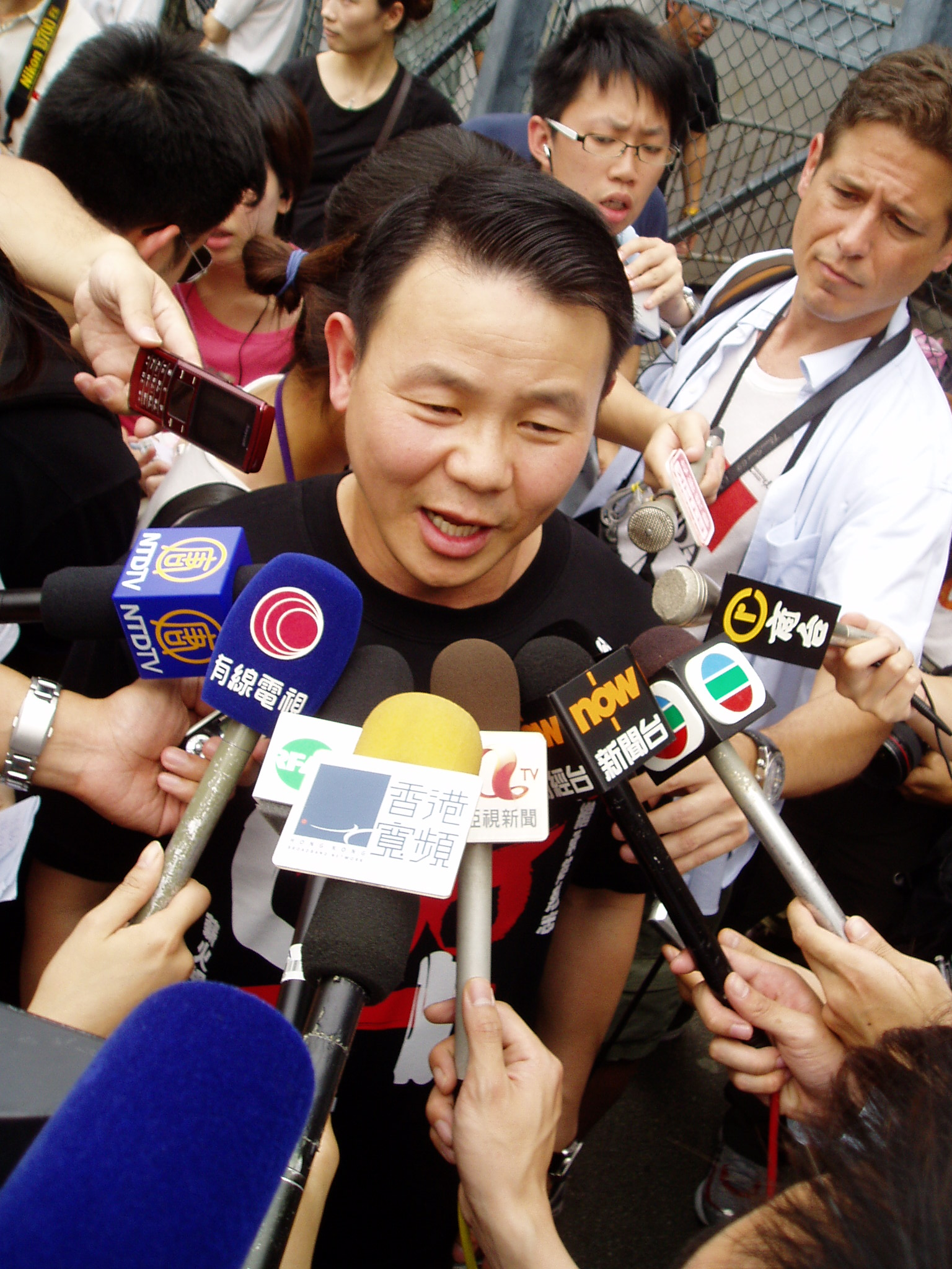 Xiong Yan is interviewing in Hong Kong in May 31 2009.